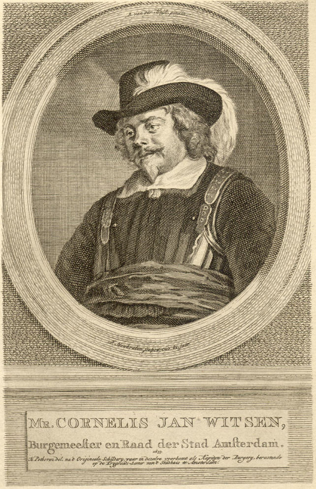 Engraved portrait from Pothoven's sketch of Van der Helst's painting Schuttersmaaltijd for Vaderlands Historie; From the Van Gybland Oosterhoff Collection, University of Pretoria